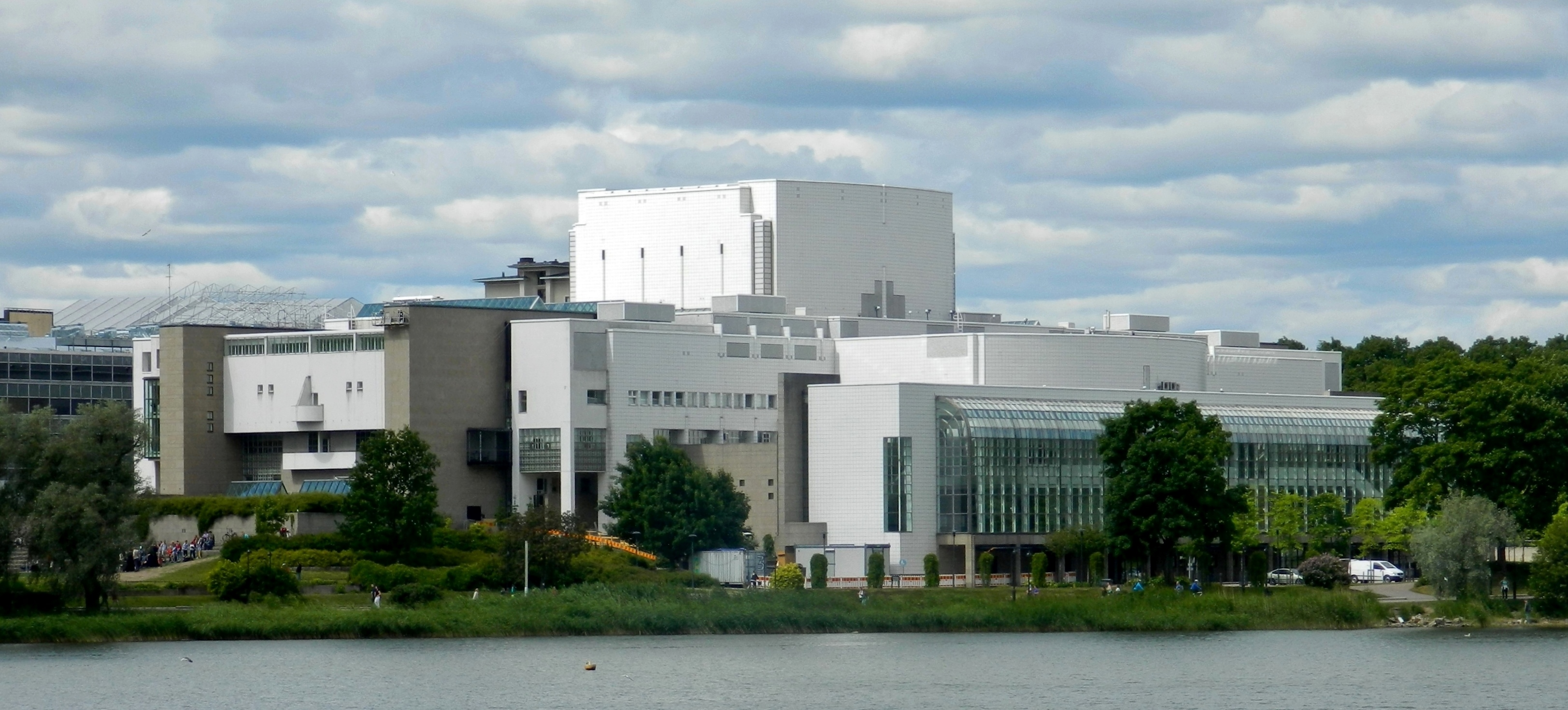 Finnish National Opera House from Töölö Bay